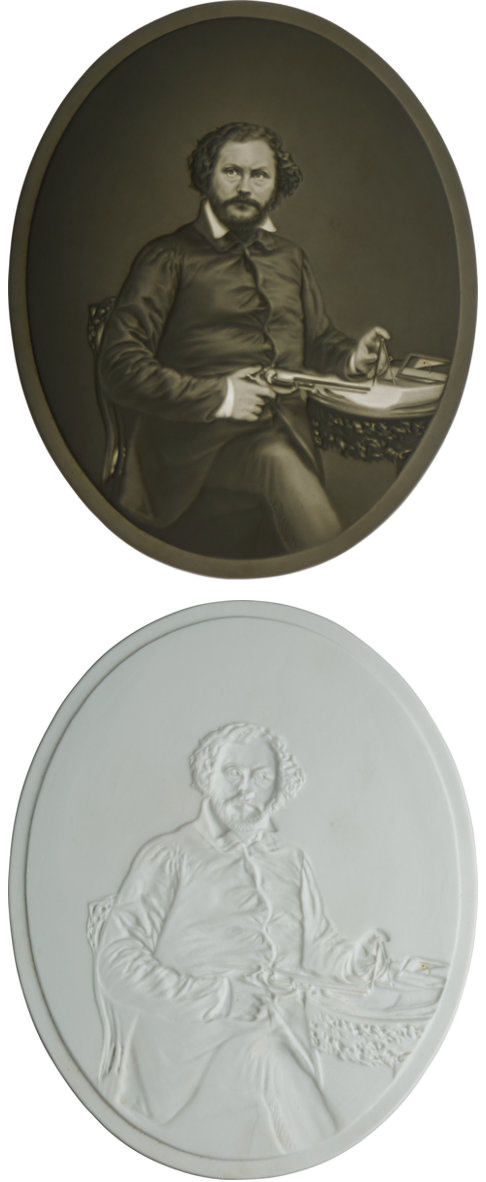 Porcelain etching self-portrait done for wide public distribution by Samuel Colt 1855.